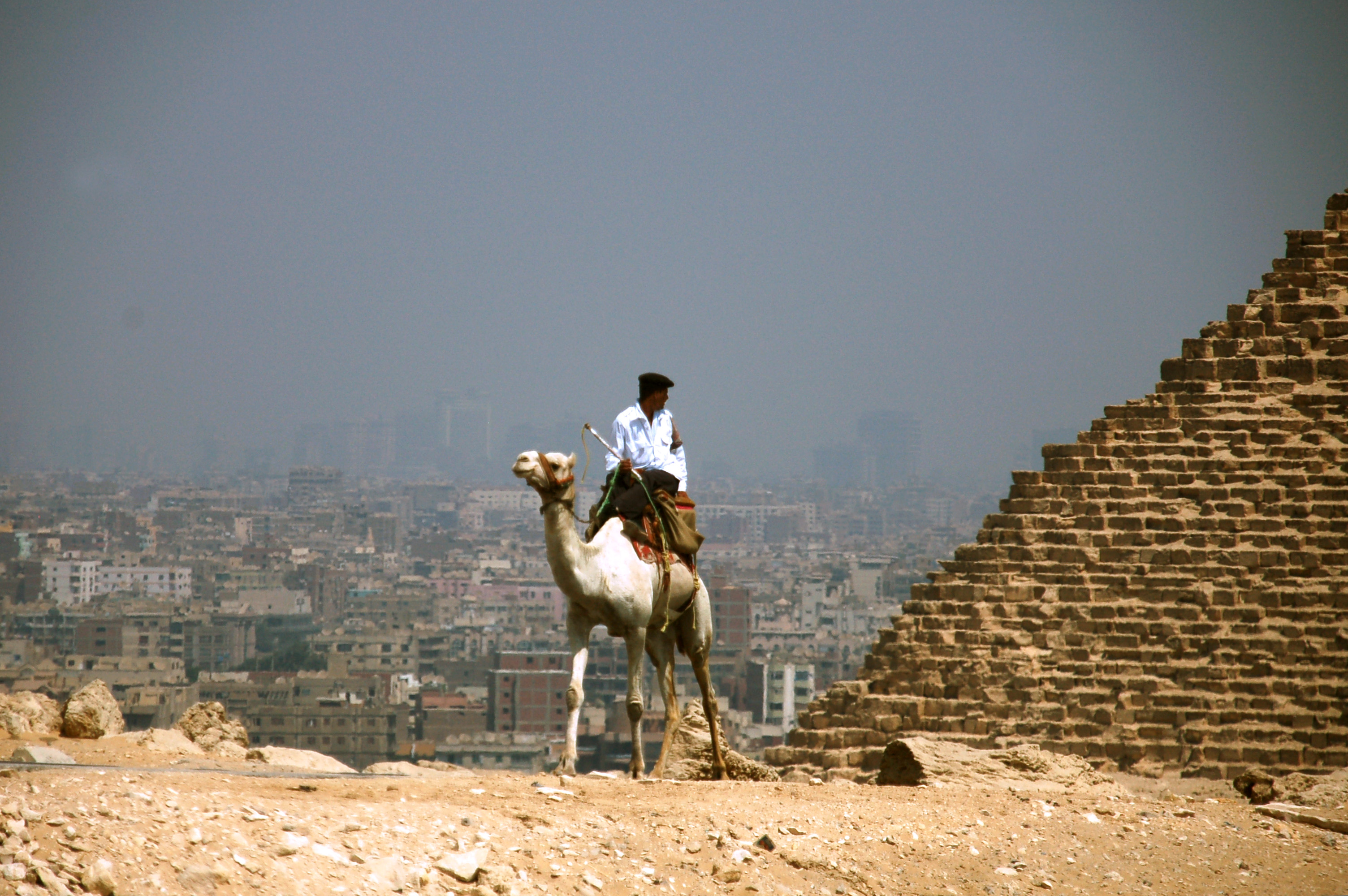 That's air pollution folks!